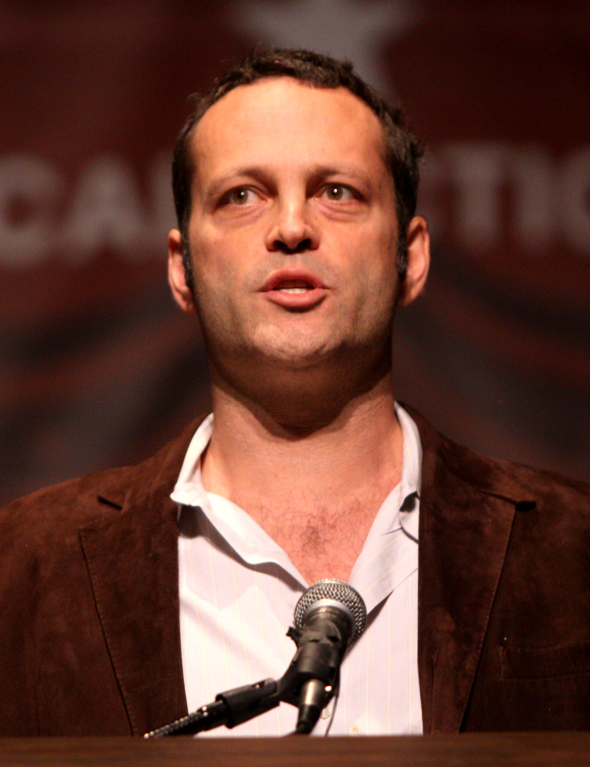 Vince Vaughn at a political conference in Reno, Nevada, endorsing Ron Paul.